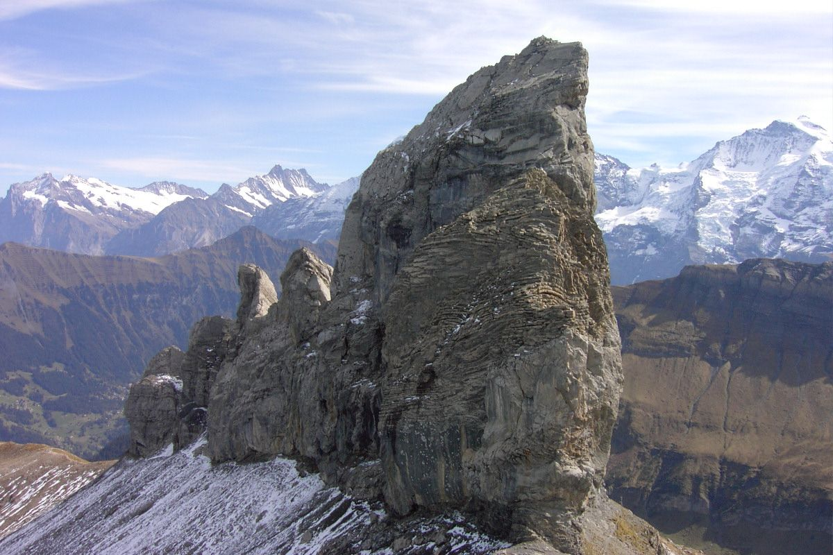 Grosses Lobhorn